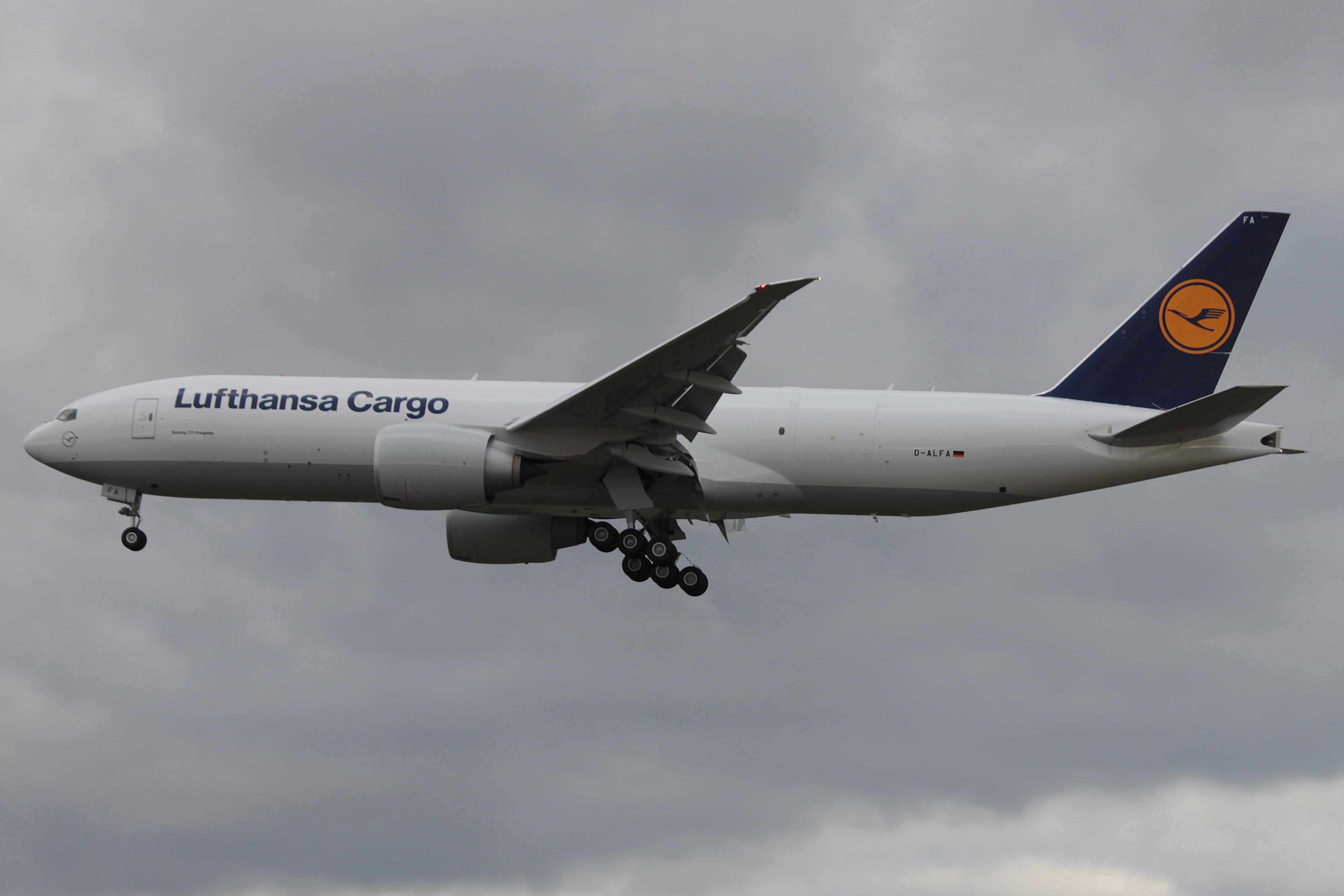 The delivery flight of the first Lufthansa Cargo 777F in final approach to Frankfurt International. The Aircraft's Name, Good Day, USA is still covered at the plane, because it was secret when the photo was taken.